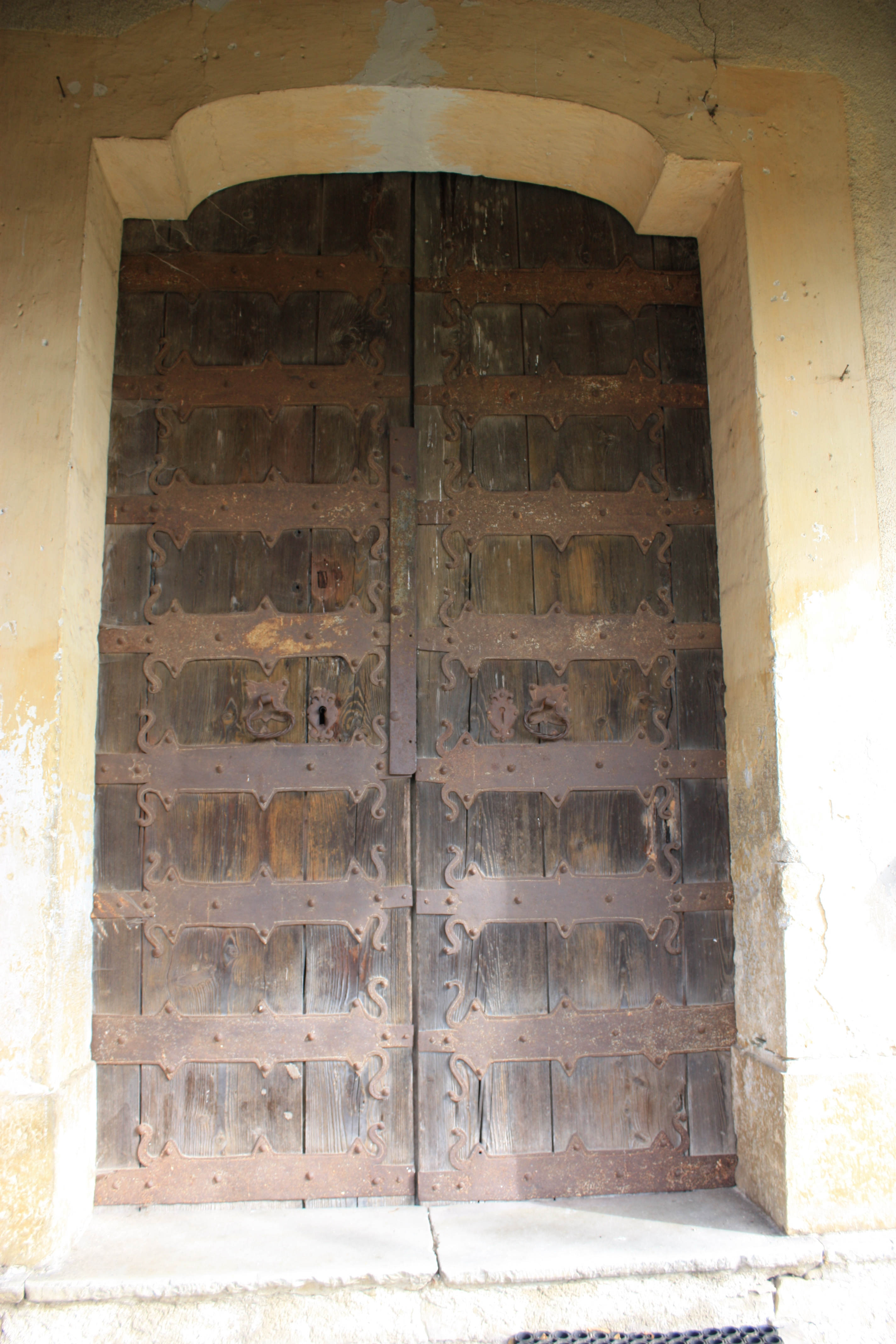 Subsidiary church: Portal Locality:Sankt Florian Community:Kappel am Krappfeld